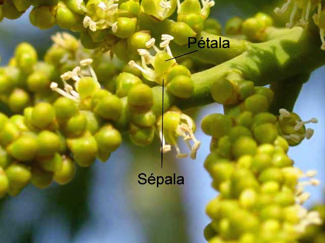 Flowers of Dypsis lutescens palm. Photo by M. A. P. Accardo Filho.